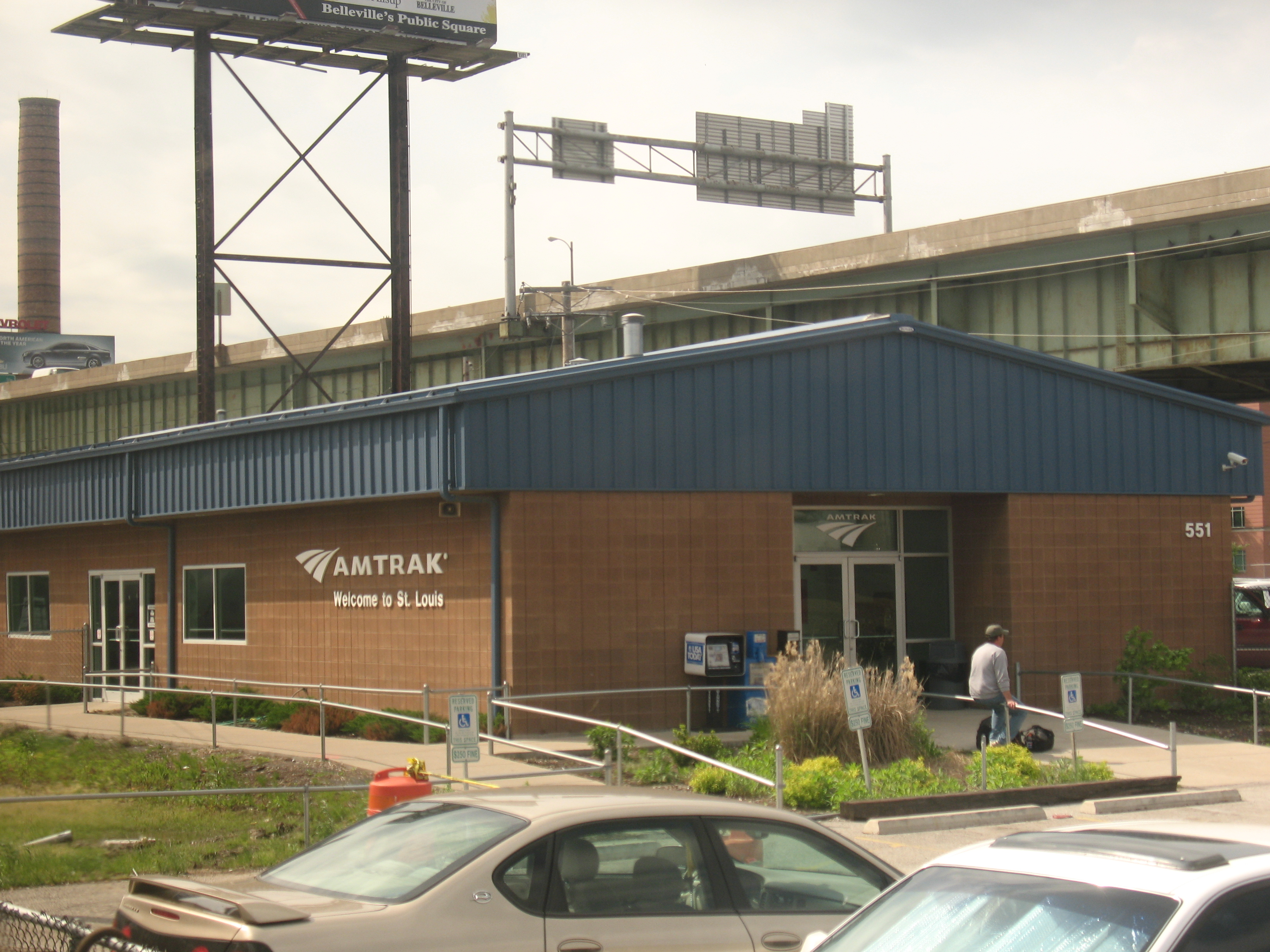 The former Amtrak station in St. Louis, Missouri. Built in 2004 and superseded in 2008.